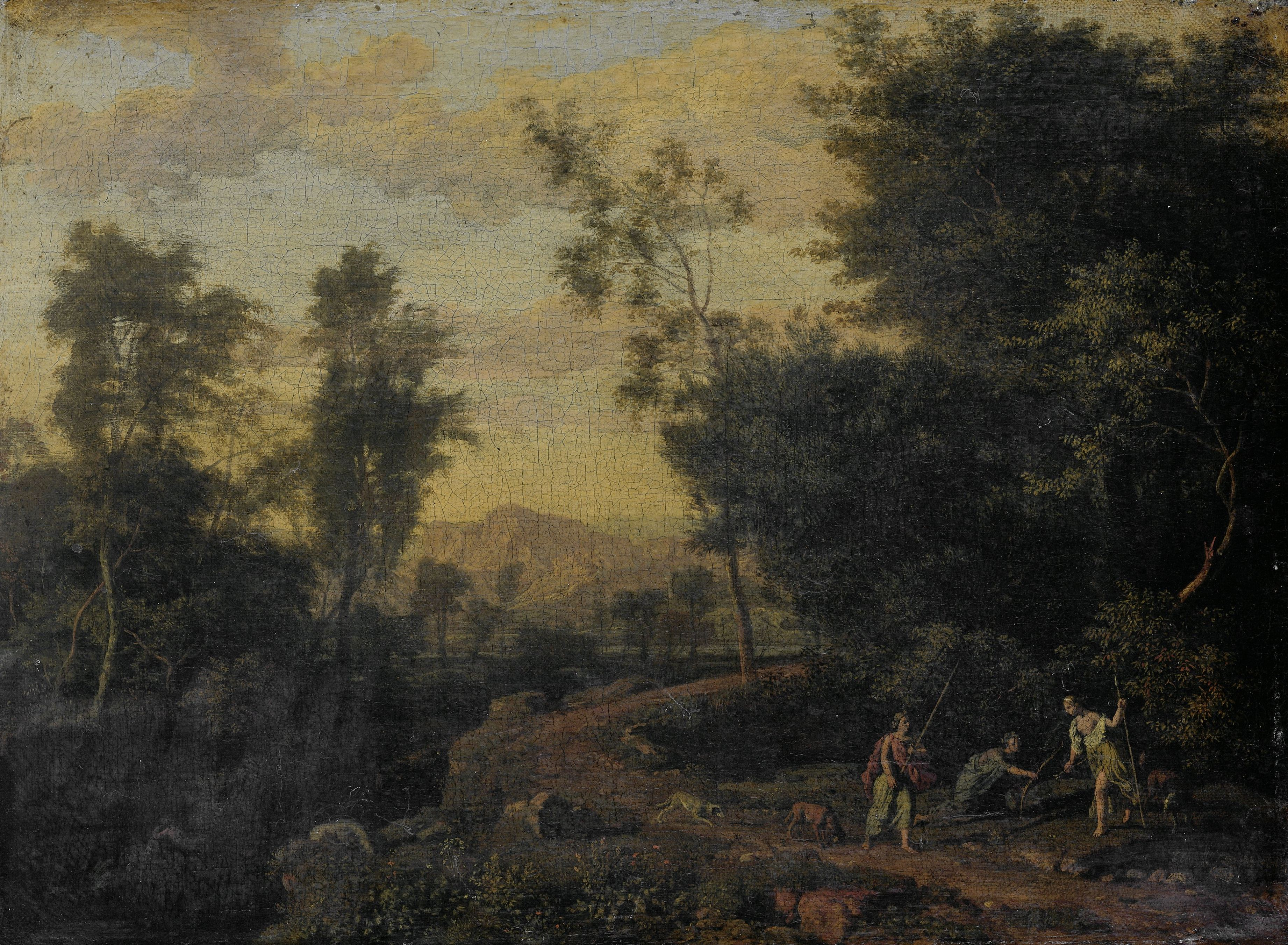 Landscape with the godess Diana hunting with two nymphs and hounds. Pendant of File:Landschap met Apollo en Kalliope Rijksmuseum SK-A-1839.jpeg.